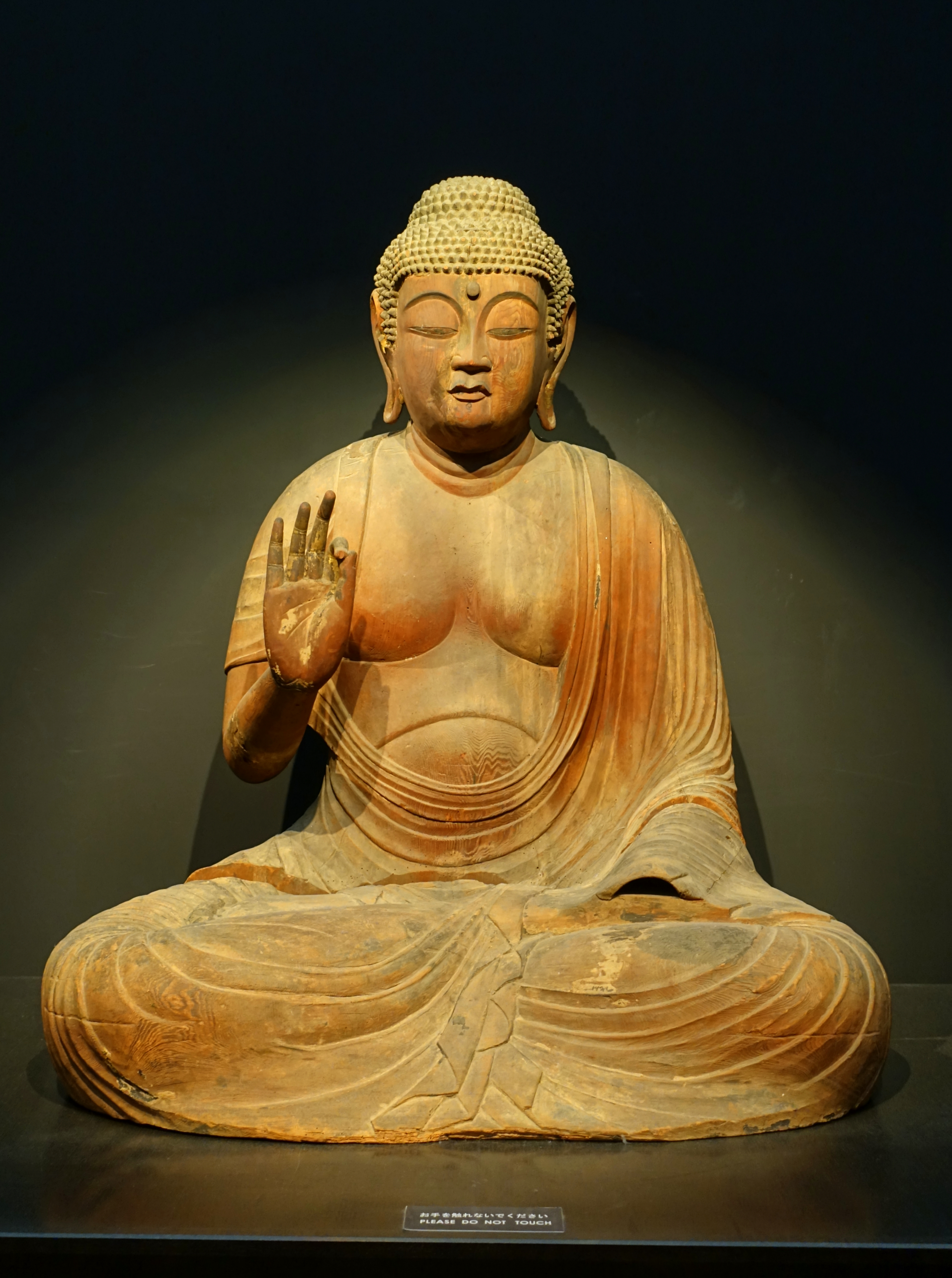 Exhibit in the Tokyo National Museum, Tokyo, Japan. This artwork is old enough so that it is in the public domain.